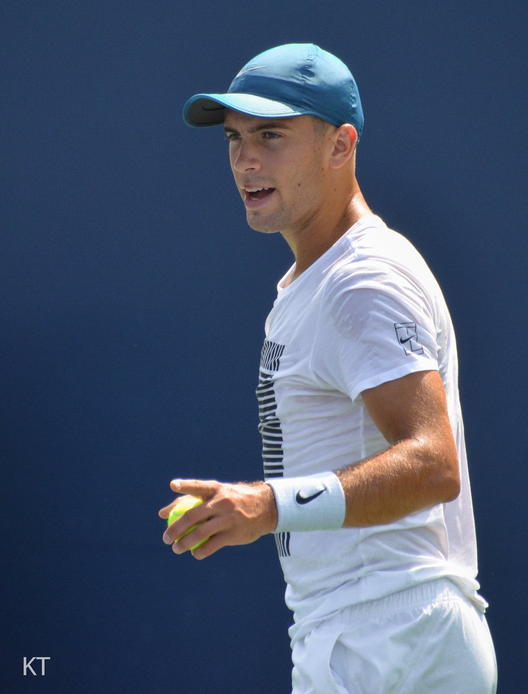 Practice Sunday at the US Open 2018.